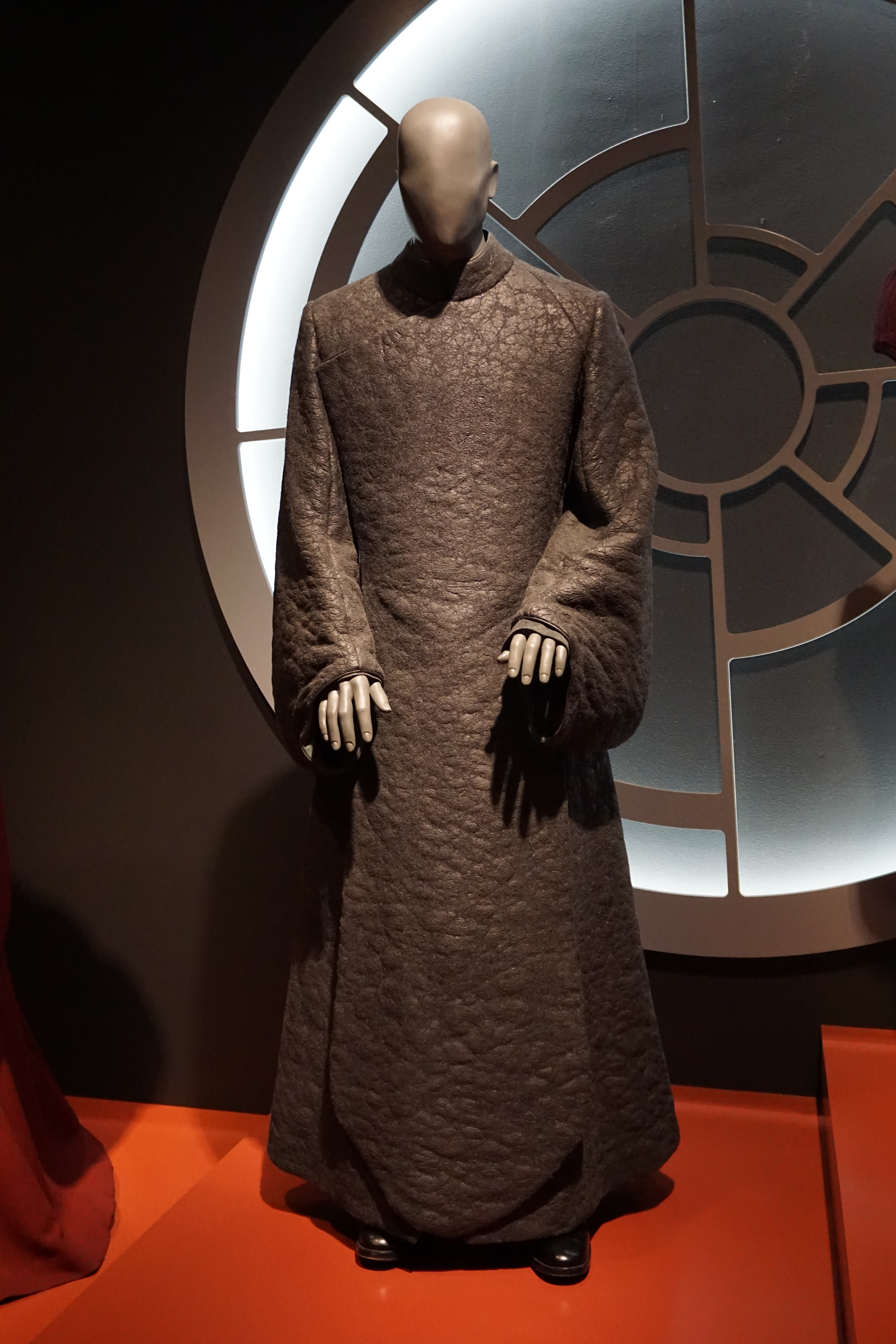 Chancellor Palpatine's Trade Federation robes from Star Wars: Episode III – Revenge of the Sith on display at the Star Wars and the Power of Costume traveling exhibit at the Detroit Institute of Arts in Detroit, Michigan (United States).